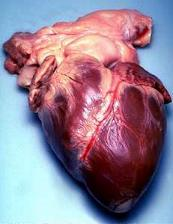 Human heart. Picture taken during autopsy.